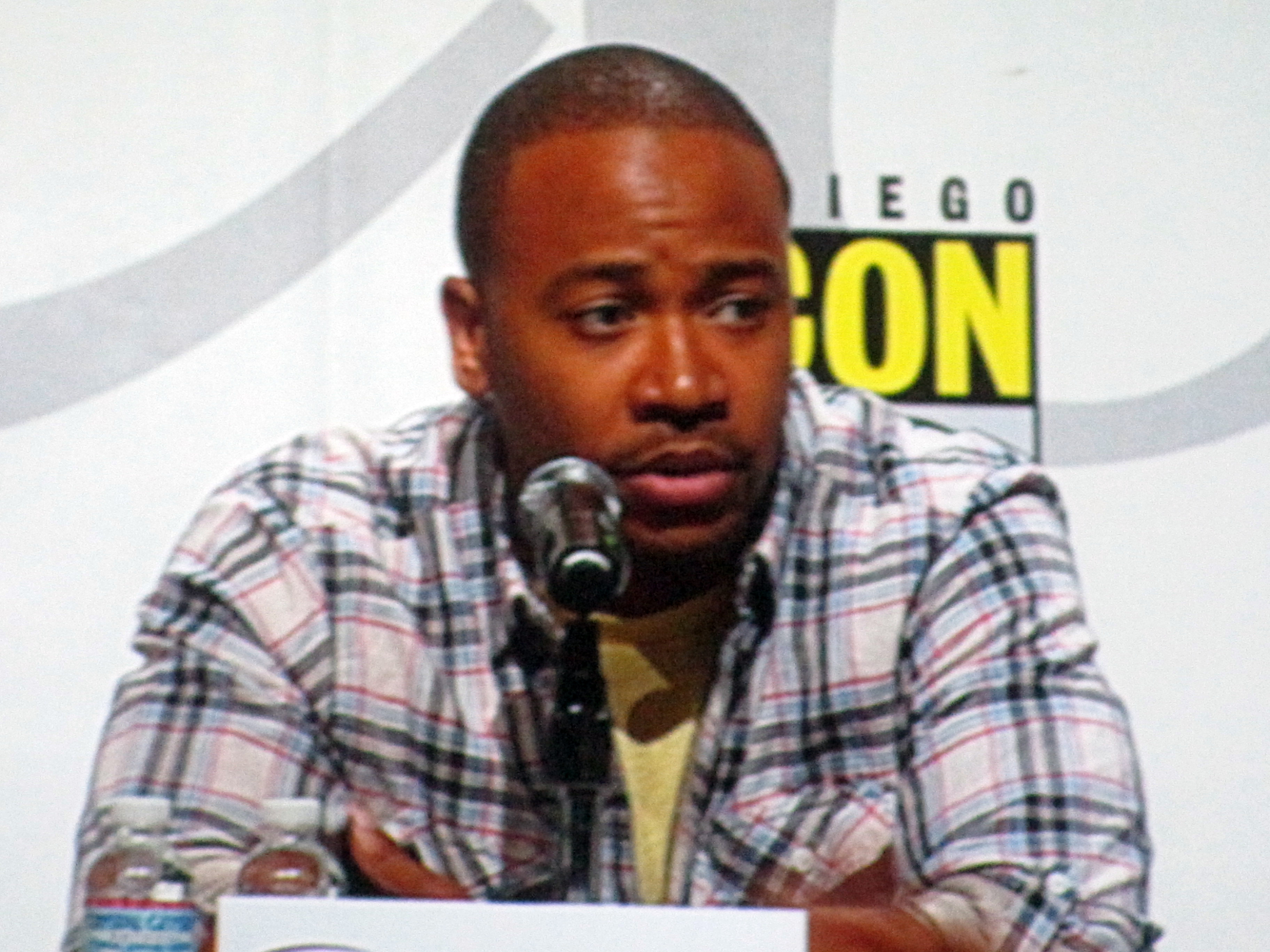 Actor Columbus Short at The Losers film panel at WonderCon 2010.